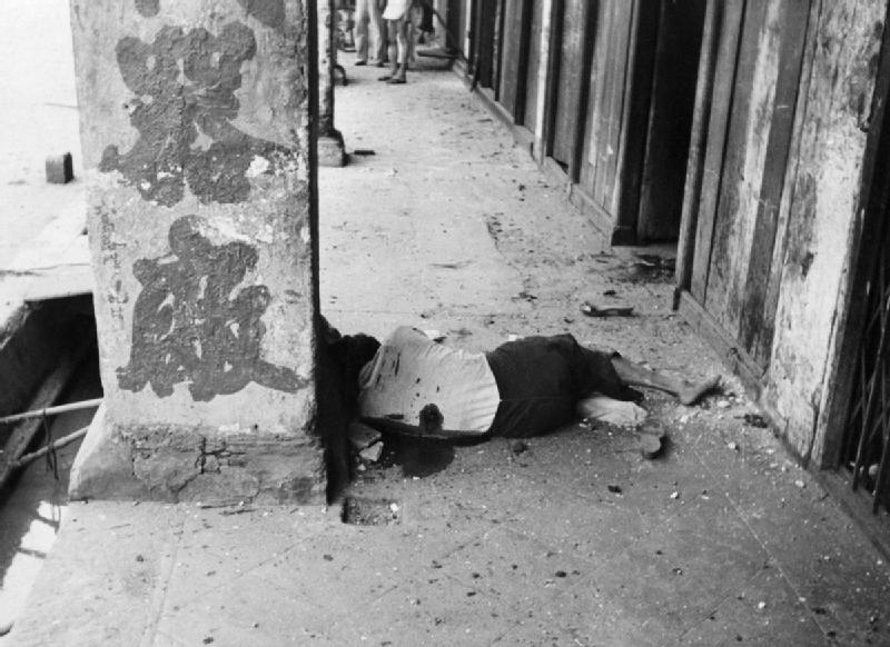 The Far East- Singapore, Malaya and Hong Kong 1939-1945 The Japanese Campaign and Victory 8 December 1941 - 15 February 1942: A civilian casualty who was killed by a bomb splinter during a Japanese air attack on Singapore.